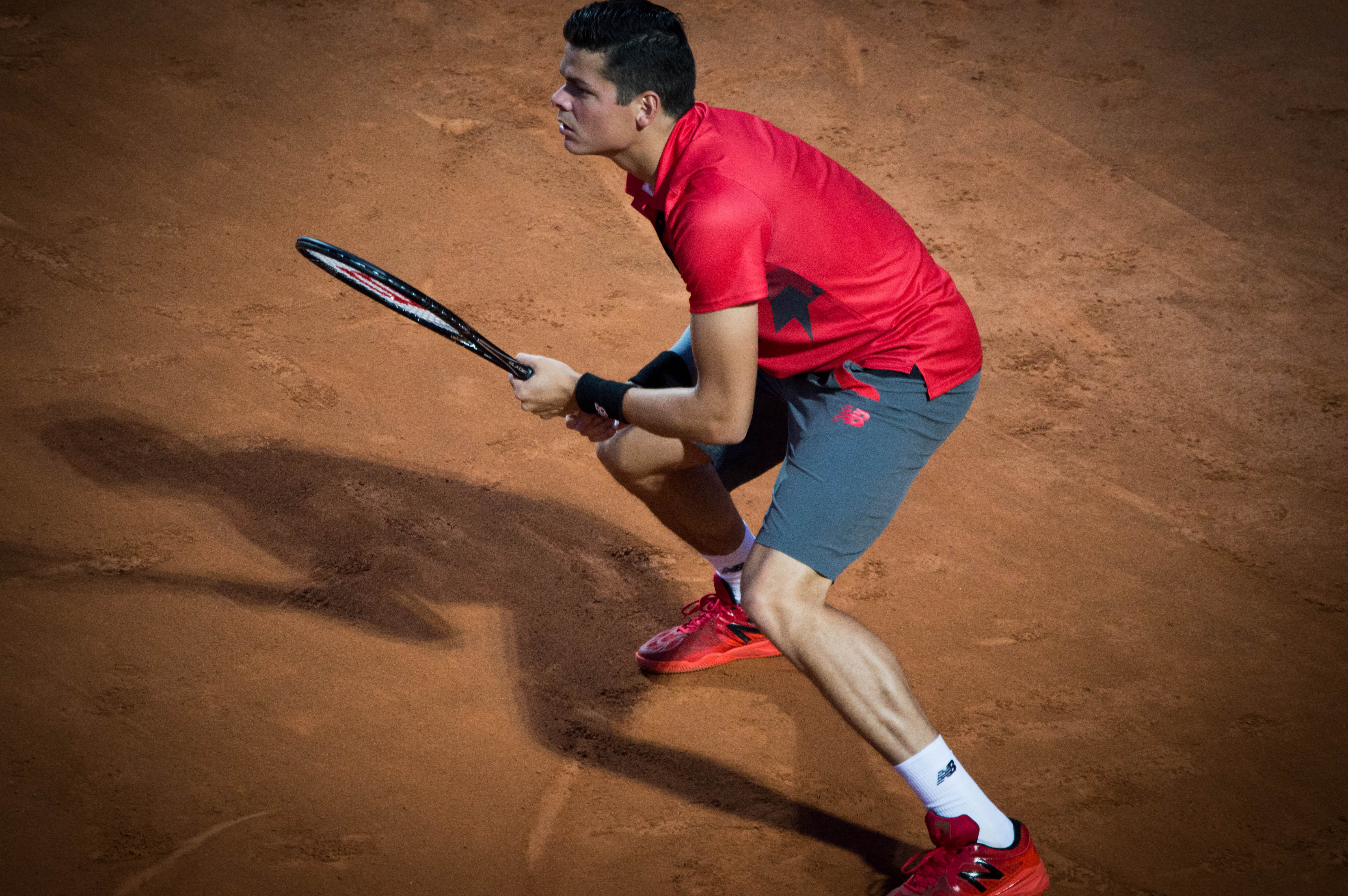 Milos Raonic in action at the 2014 Italian Open